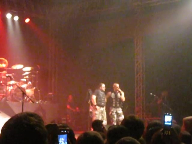 Attila Dorn with Joakim Brodén, Oberhausen 2011